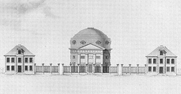 synagoge kassel old